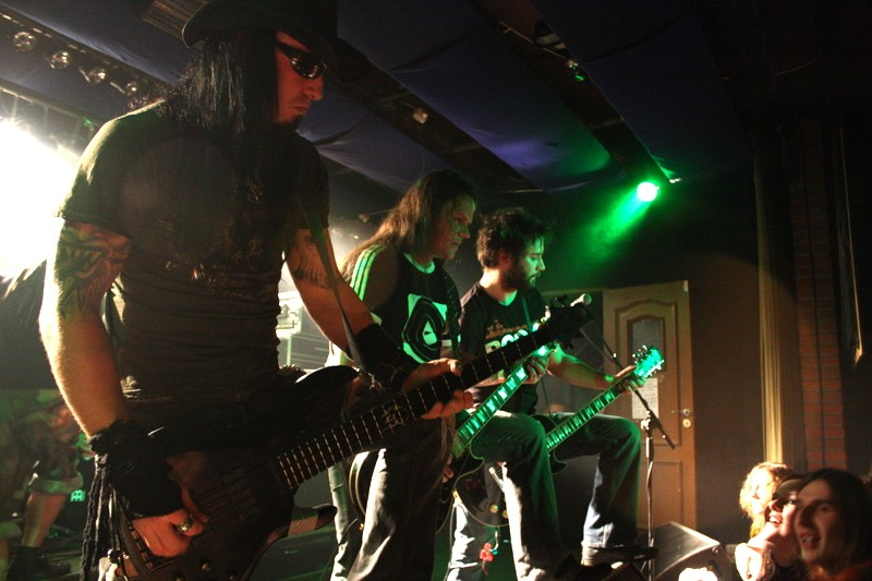 Black River, Lublin, Graffiti, 10.12.2008